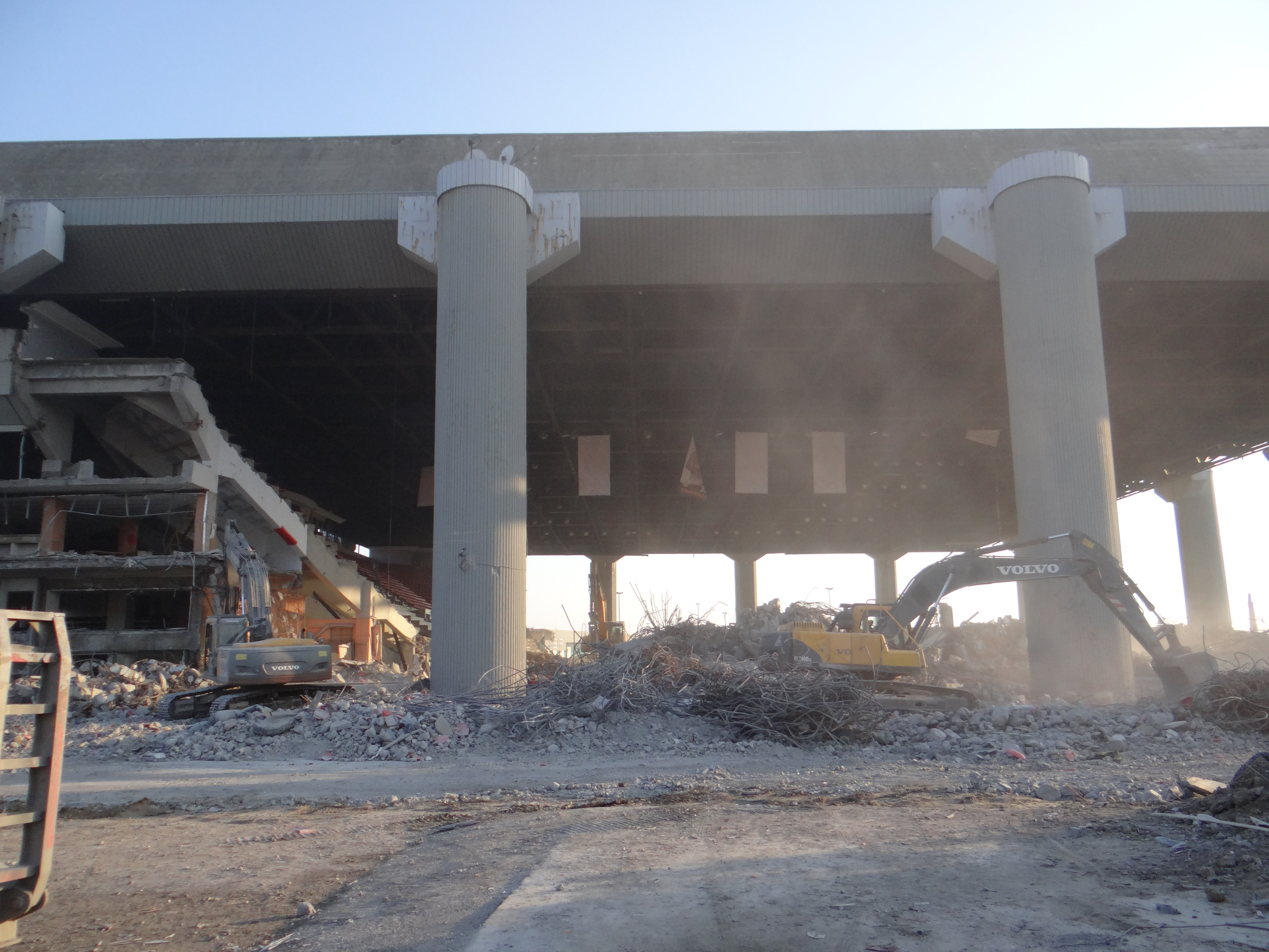 Abdi İpekçi Arena demolition 20180201